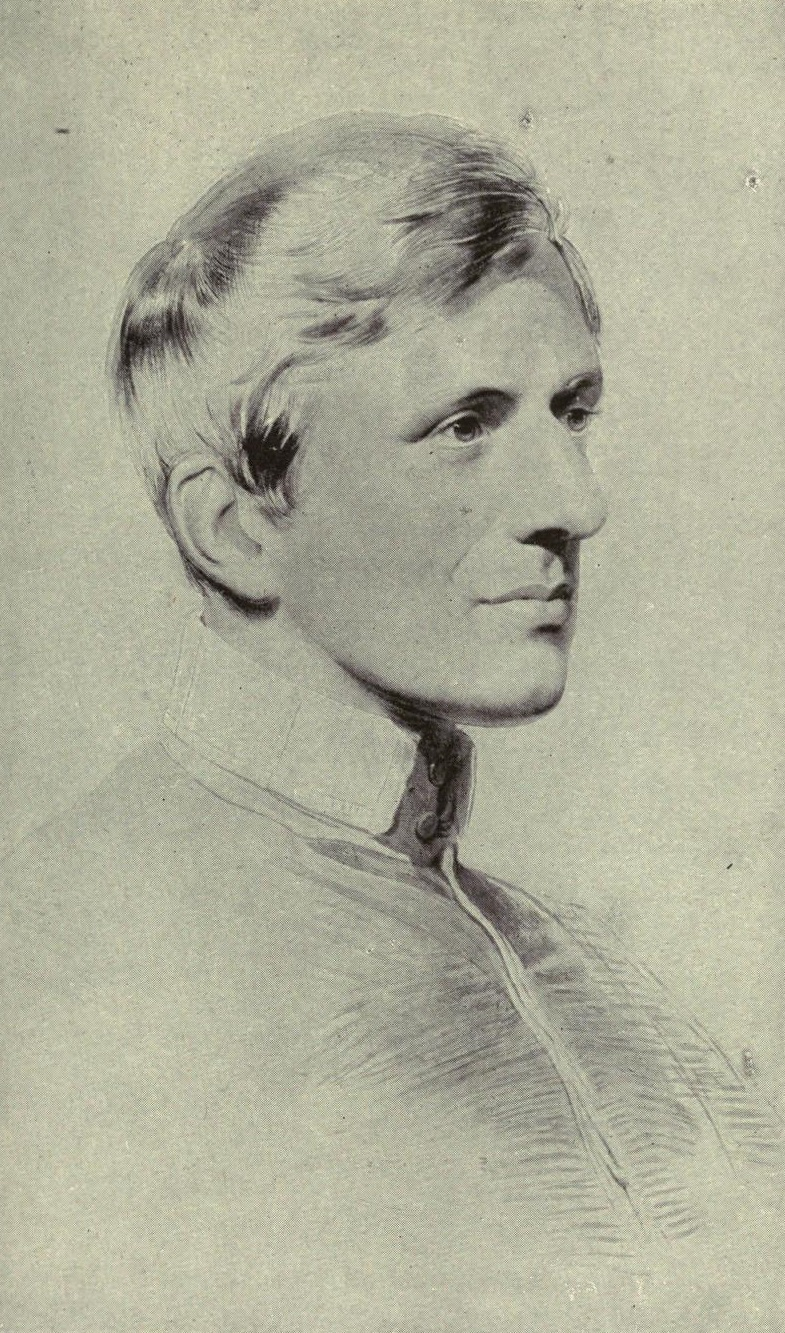 Portrait of John Henry Newman